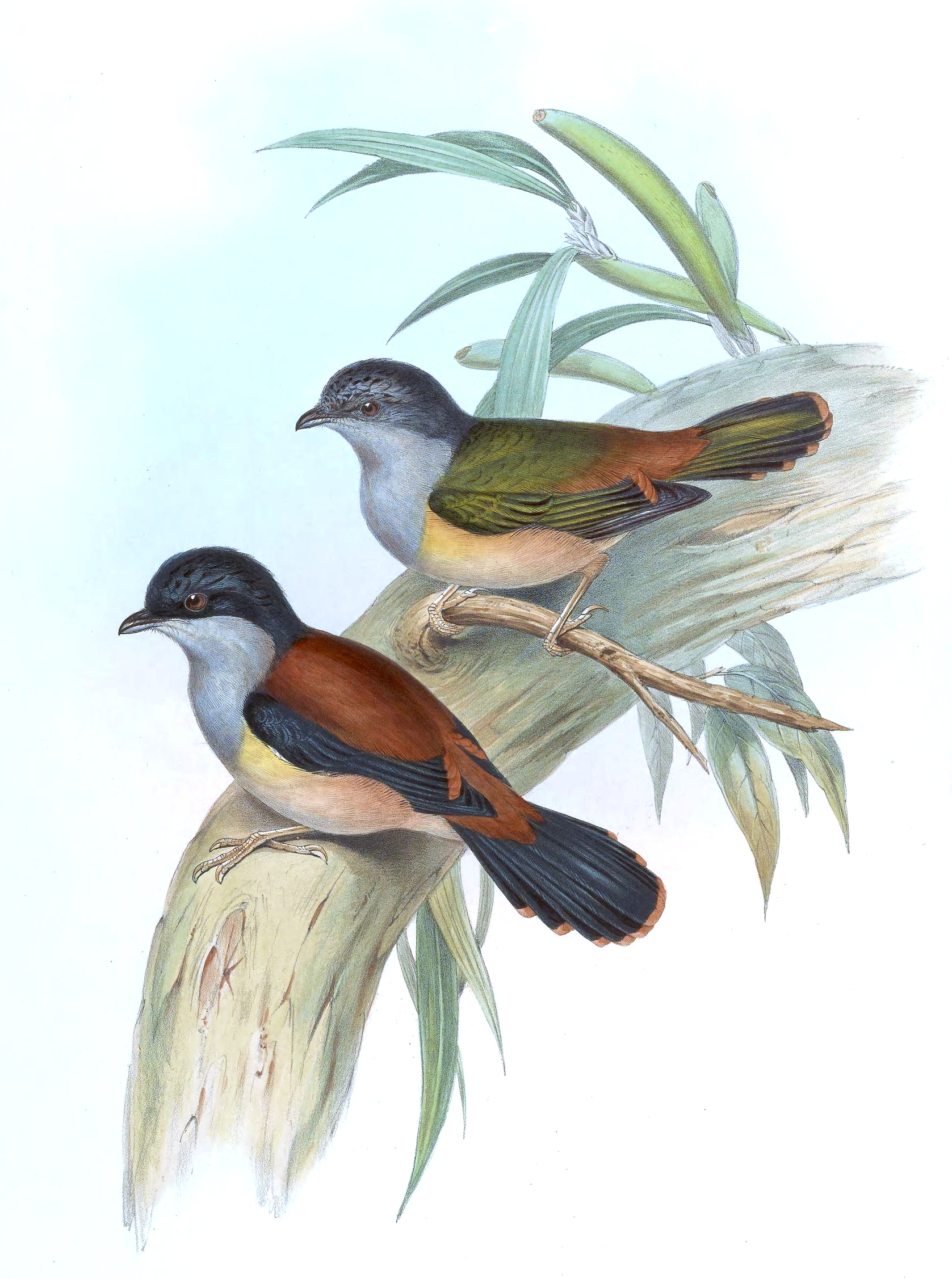 Pteruthius rufiventer